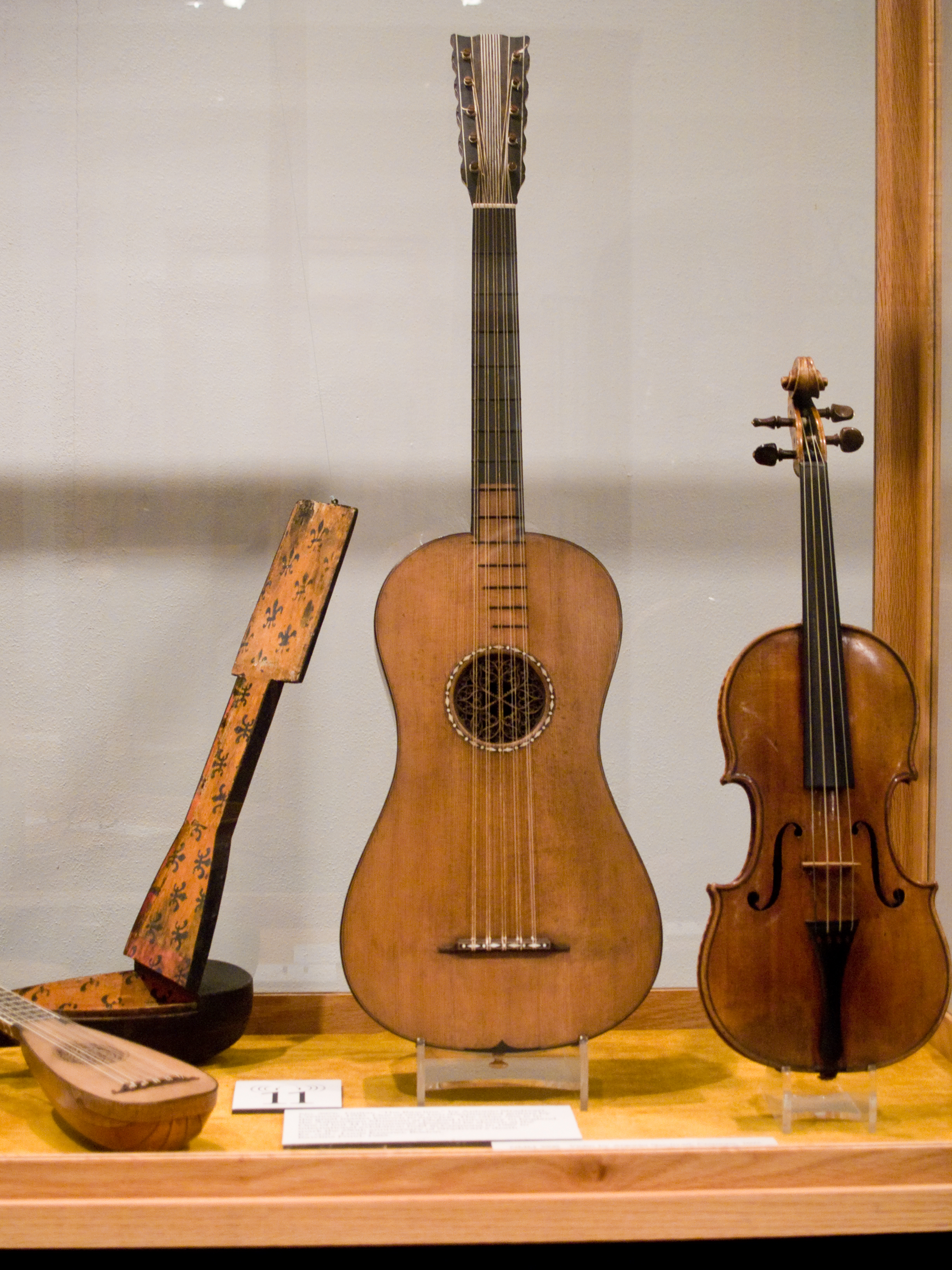 National Music Museum in Vermillion, SD where we visited last fall has a Stadivarius collection. There is a guitar, violin, cello (converted), and a mandolin with original case. These are all restored to playable condition.